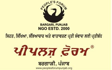 people 's fourm bargari